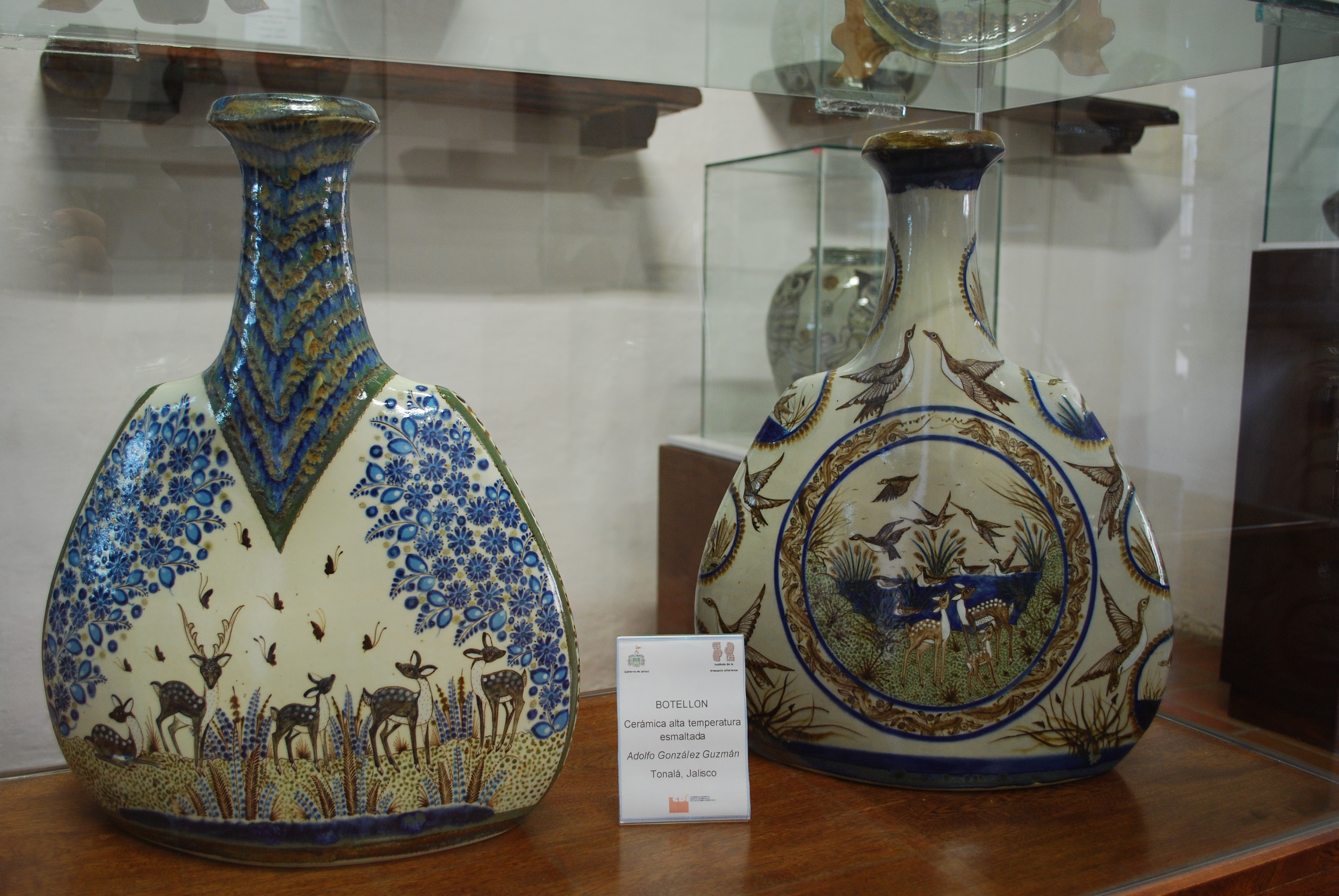 Vases by Carlos Villanueva at the Museo Regional de Ceramica in Tlaquepaque, Jalisco, Mexico